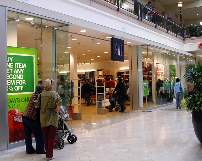 A Gap store in the Westfield Shoppingtown Valley Fair shopping center in San Jose.